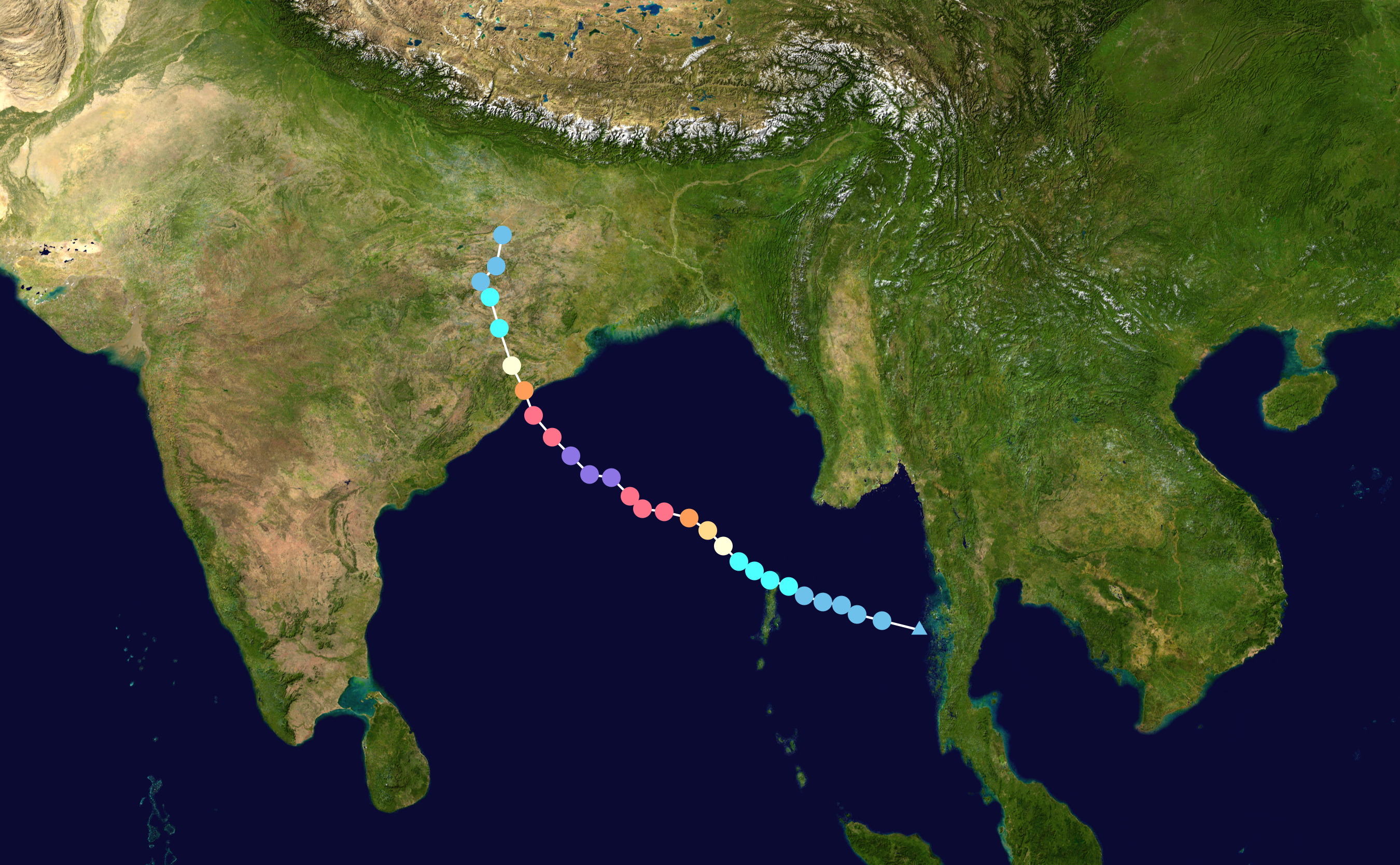 Track map of Extremely Severe Cyclonic Storm Phailin of the 2013 North Indian Ocean cyclone season. The points show the location of the storm at 6-hour intervals. The colour represents the storm's maximum sustained wind speeds as classified in the Saffir–Simpson scale (see below), and the shape of the data points represent the nature of the storm, according to the legend below. Saffir–Simpson scale Tropical depression≤38 mph≤62 km/h Category 3111–129 mph178–208 km/h Tropical storm39–73 mph63–118 km/h Category 4130–156 mph209–251 km/h Category 174–95 mph119–153 km/h Category 5≥157 mph≥252 km/h Category 296–110 mph154–177 km/h Unknown Storm type Tropical cyclone Subtropical cyclone Extratropical cyclone / Remnant low / Tropical disturbance / Monsoon depression